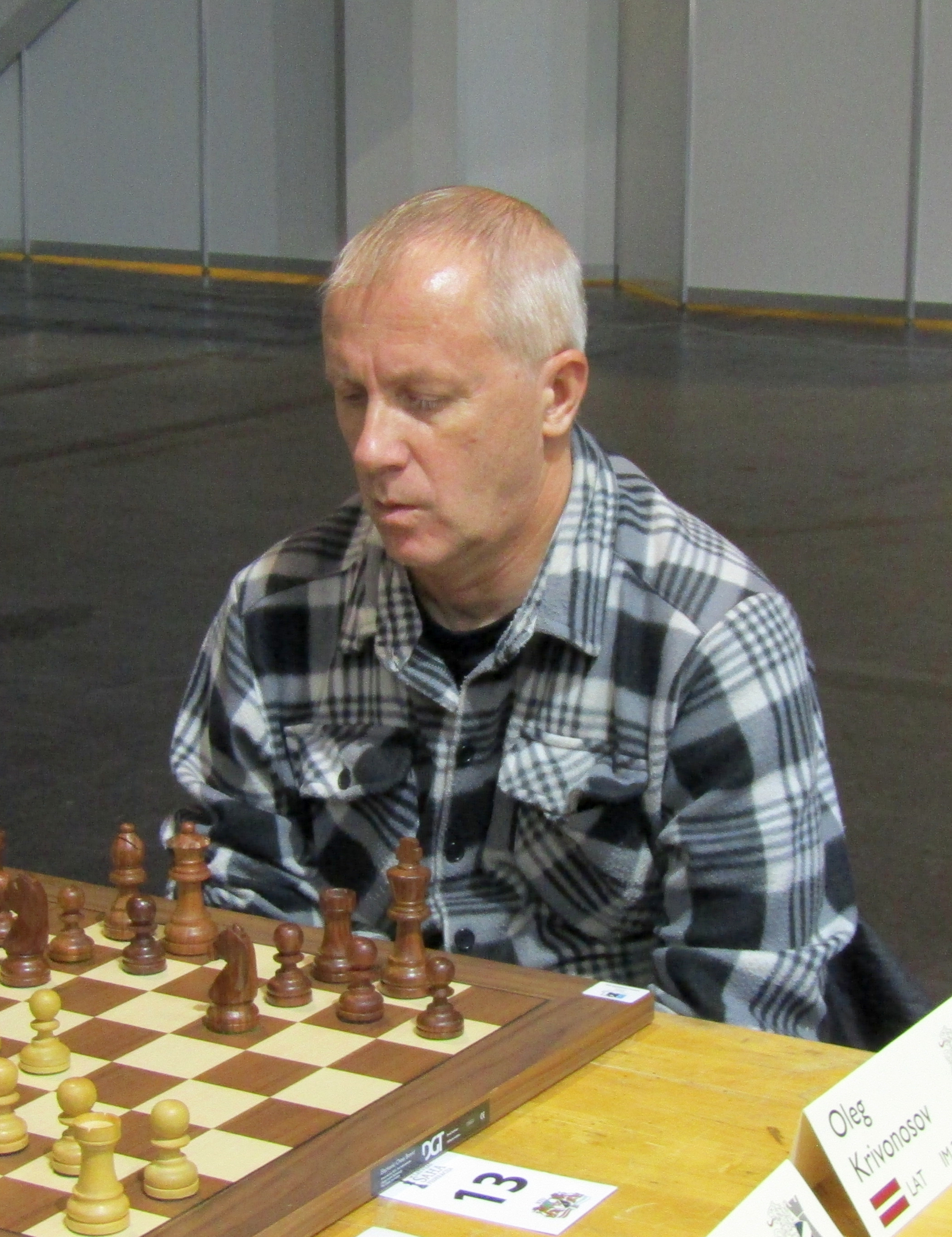 Oleg Krivonosov, chess player from Latvia, 2016